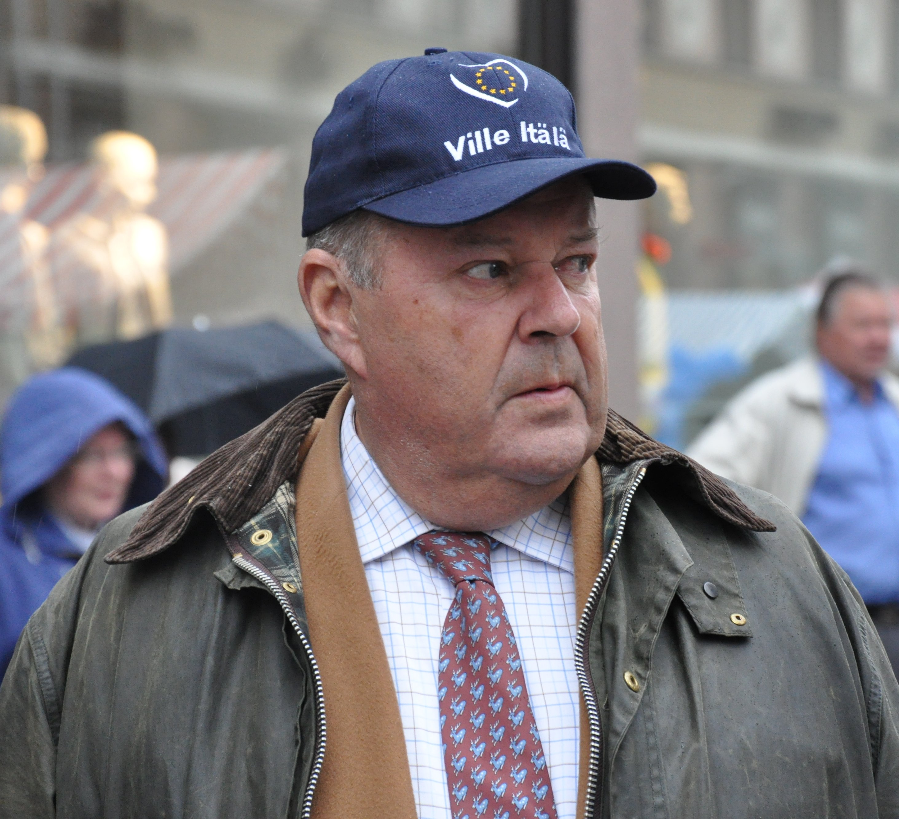 Former Member of the Finnish and European Parliament and Minister Ilkka Suominen at Ville Itälä's birthday celebrations in Turku, Finland 2009.